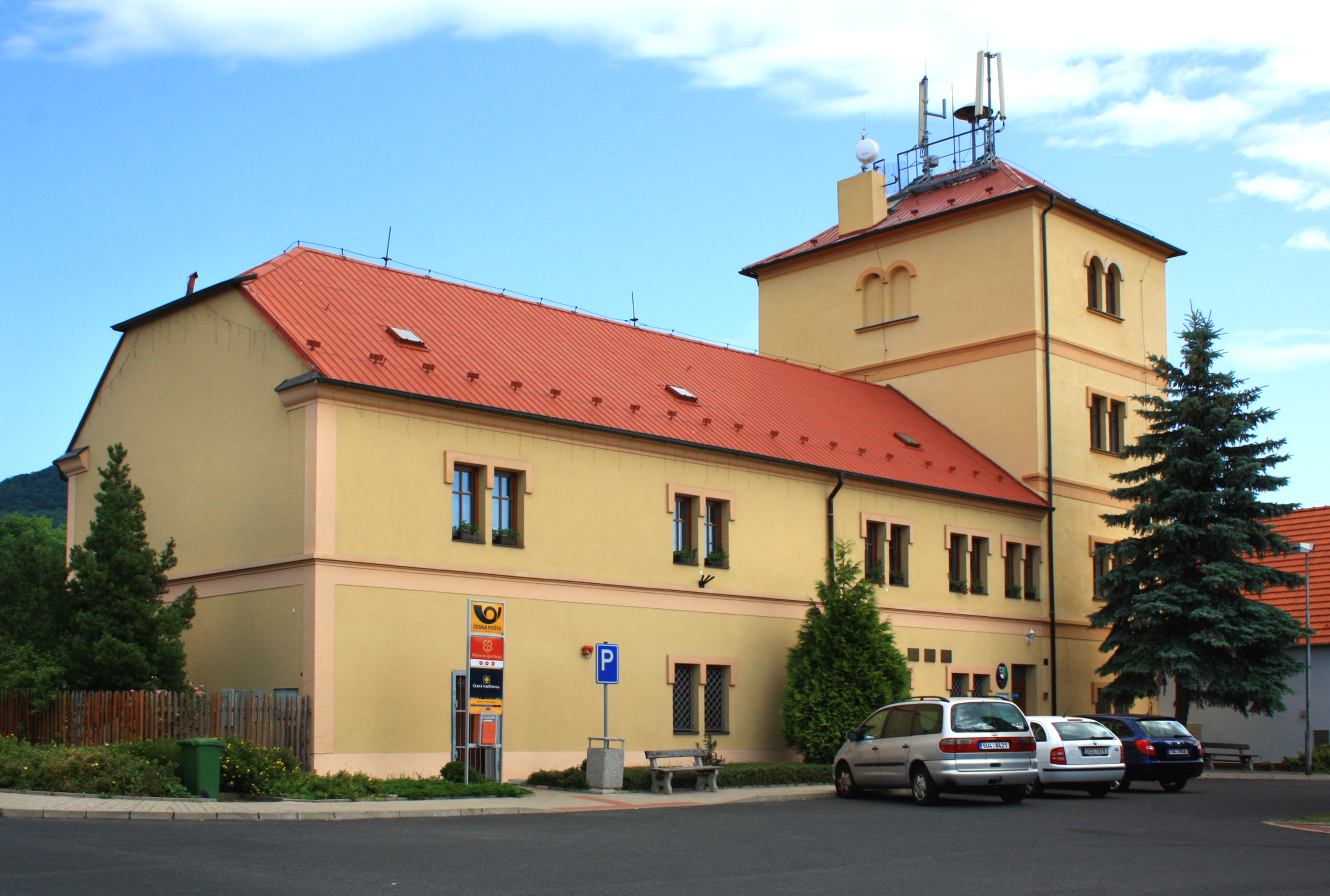 Municipal office in Vysoká Pec village, Czech Republic